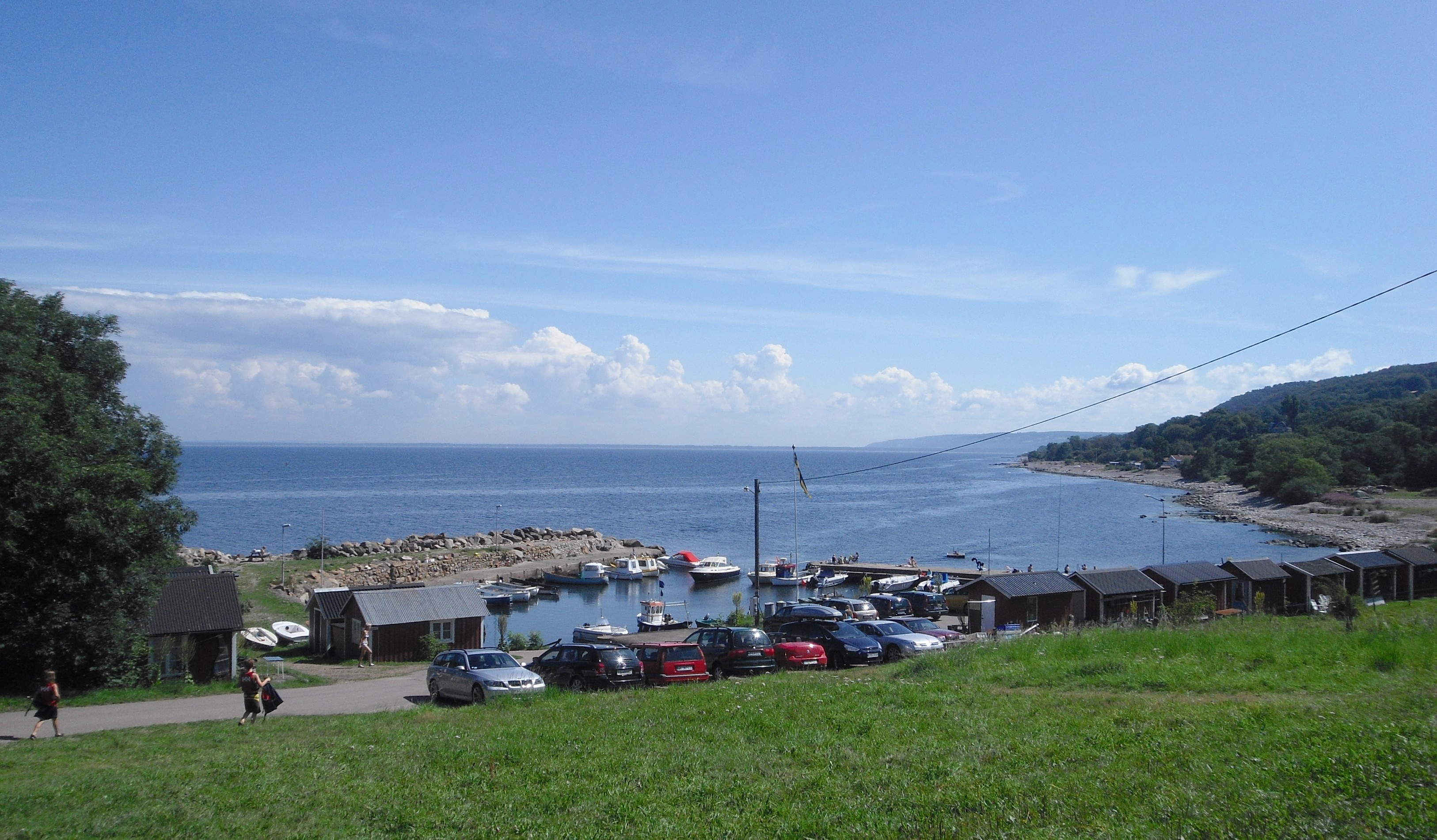 Kattvik in Båstad, Sweden